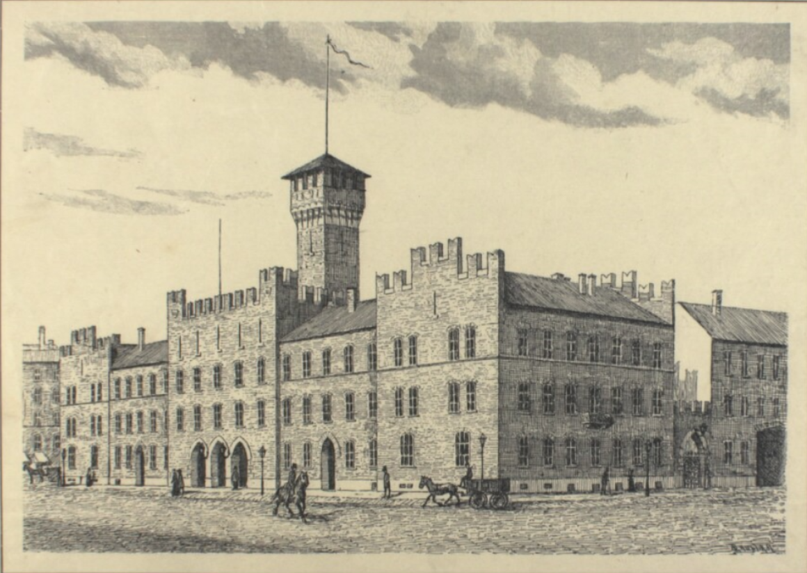 Govedbrandstationen in Copenhagen, Denmark